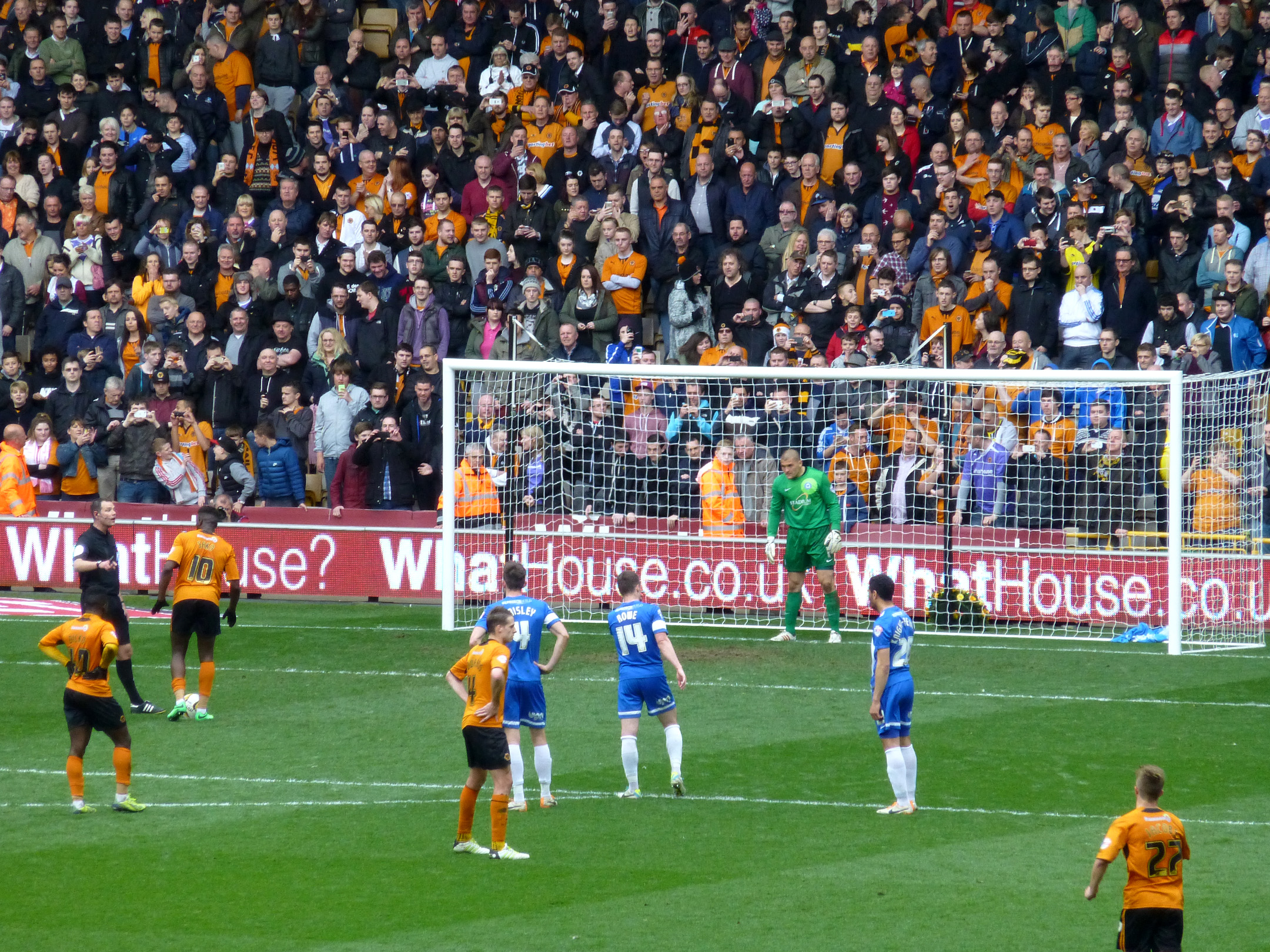 Bakary Sako of Wolverhampton Wanderers prepares to take a penalty in front of the Jack Harris Stand at Molineux Stadium.